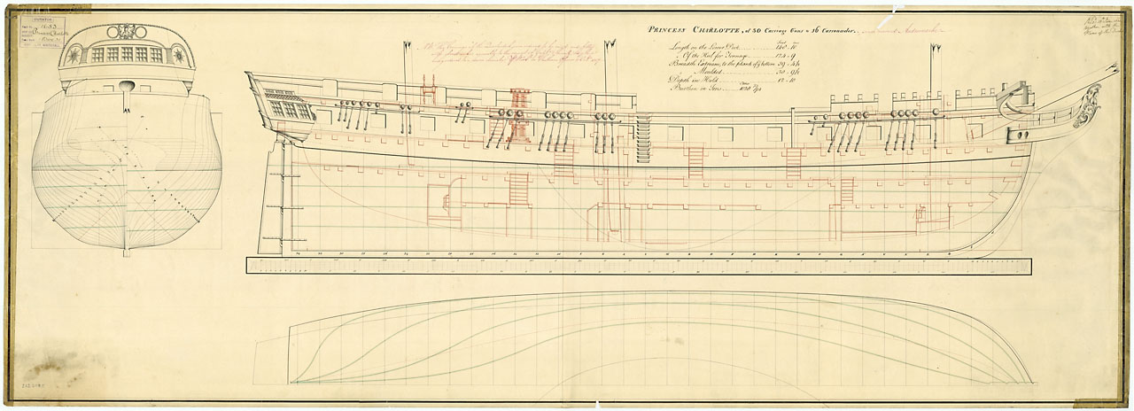 Princess Charlotte (captured 1799) Scale: 1:48. Plan showing the body plans with stern board outline and some detail, sheer lines with inboard details and figurehead, and longitudinal half-breadth for Princess Charlotte (captured 1799), a captured French Frigate, after being fitted for a 38-gun Fifth Rate, Frigate. The plan includes an annotation dated October 1817 relating to the ship (renamed Andromache in 1812) when she was fitted for service in Brazil under the command of Captain Shirriff [William Henry Shirreff, seniority: 15 November 1809]. The quarterdeck coamings were ordered to be raised and fitted with glass sashes as the ship was being ordered to 'a warm climate'. PRINCESS CHARLOTTE 1799